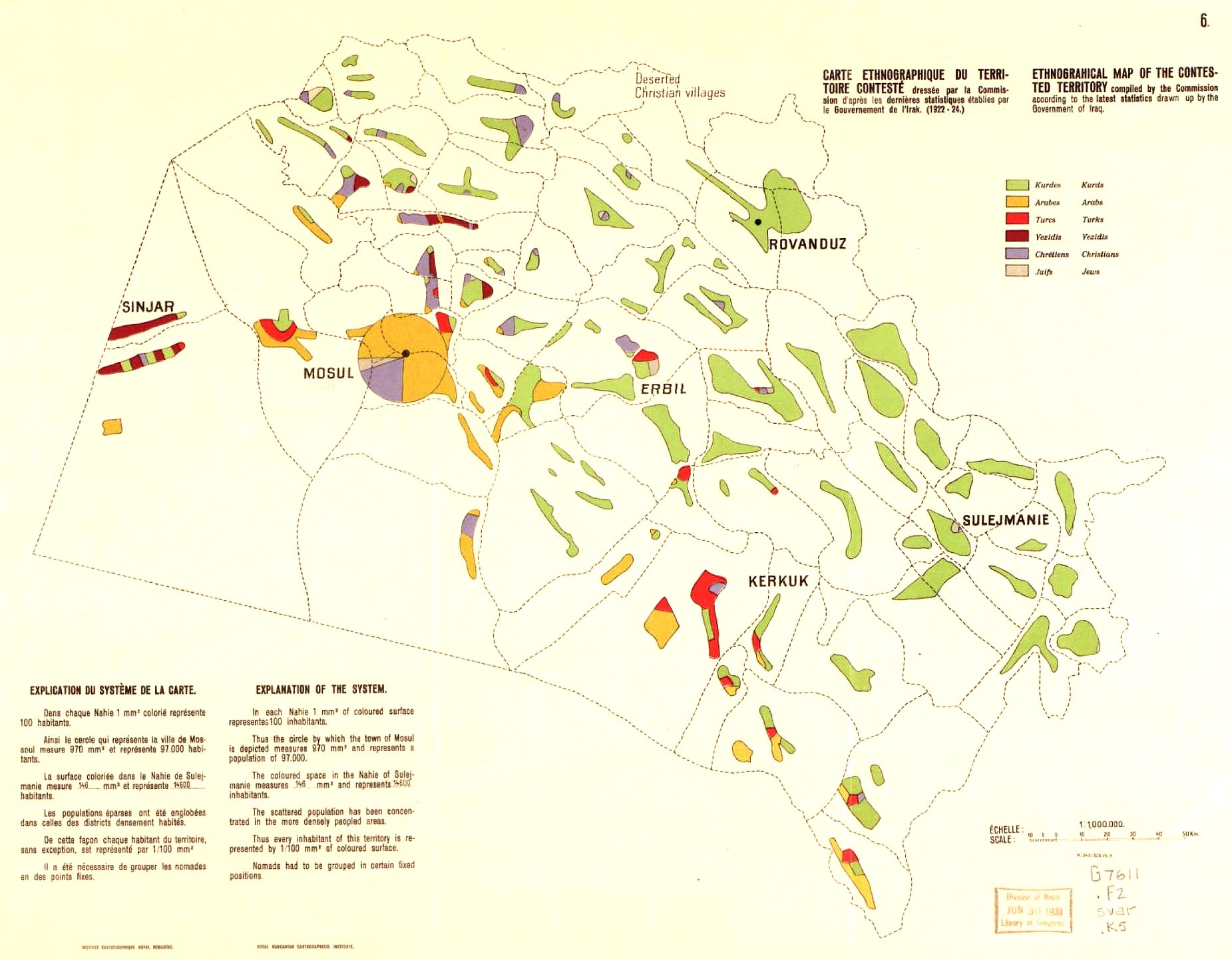 Ethnographical Map of the contested territory, compiled by the Commission according to the latest statistics drawn up by the Government of Iraq (1922-1924). Source: Map 6 of Question of the frontier between Turkey and Iraq, League of Nations, C400M147 1925VII. Geneva.